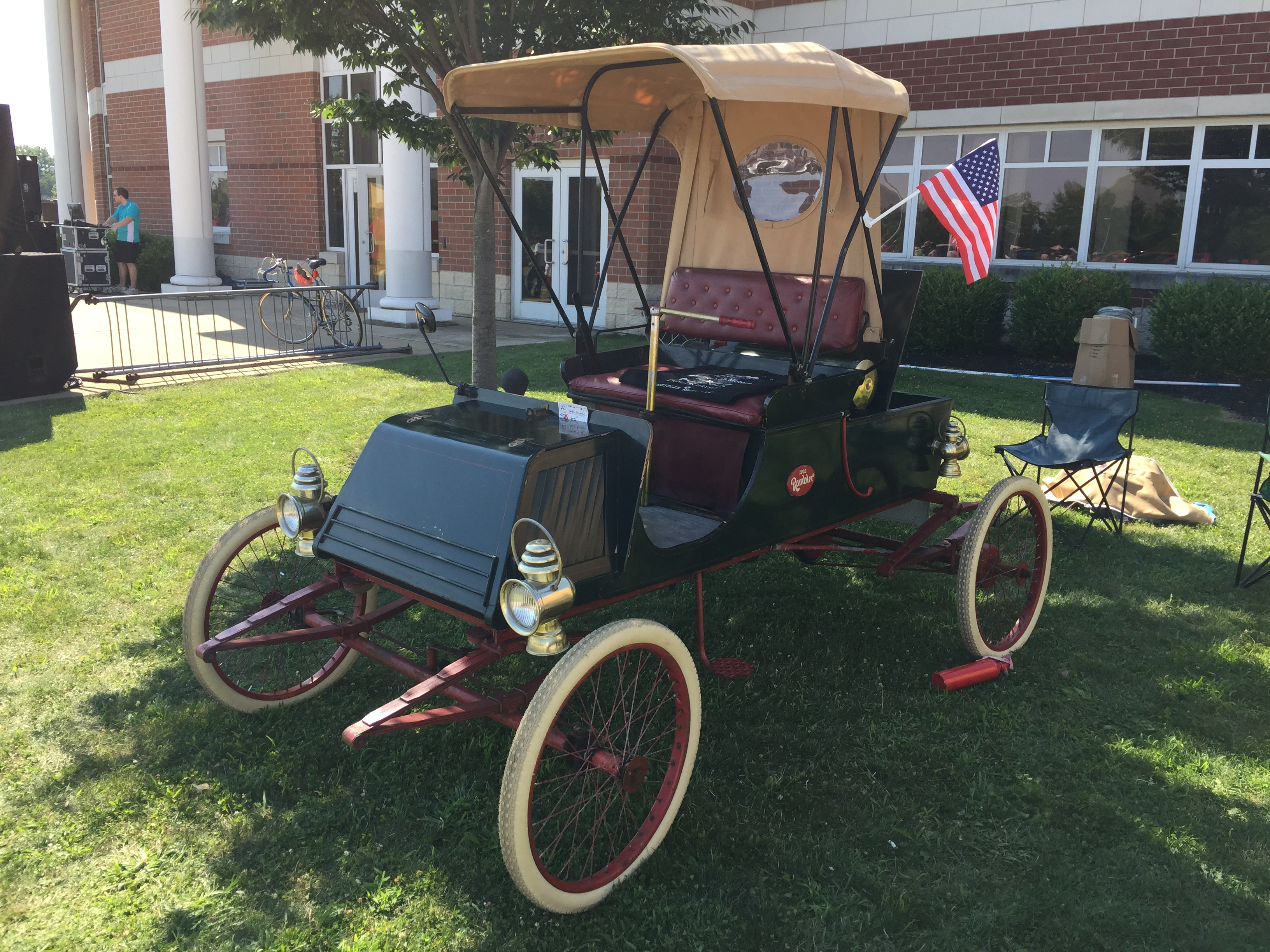 1950-1902 Rambler Runabout. Picture taken at the American Motors Owners Association (AMO) annual convention that was held July 2015 near Cleveland, Ohio.